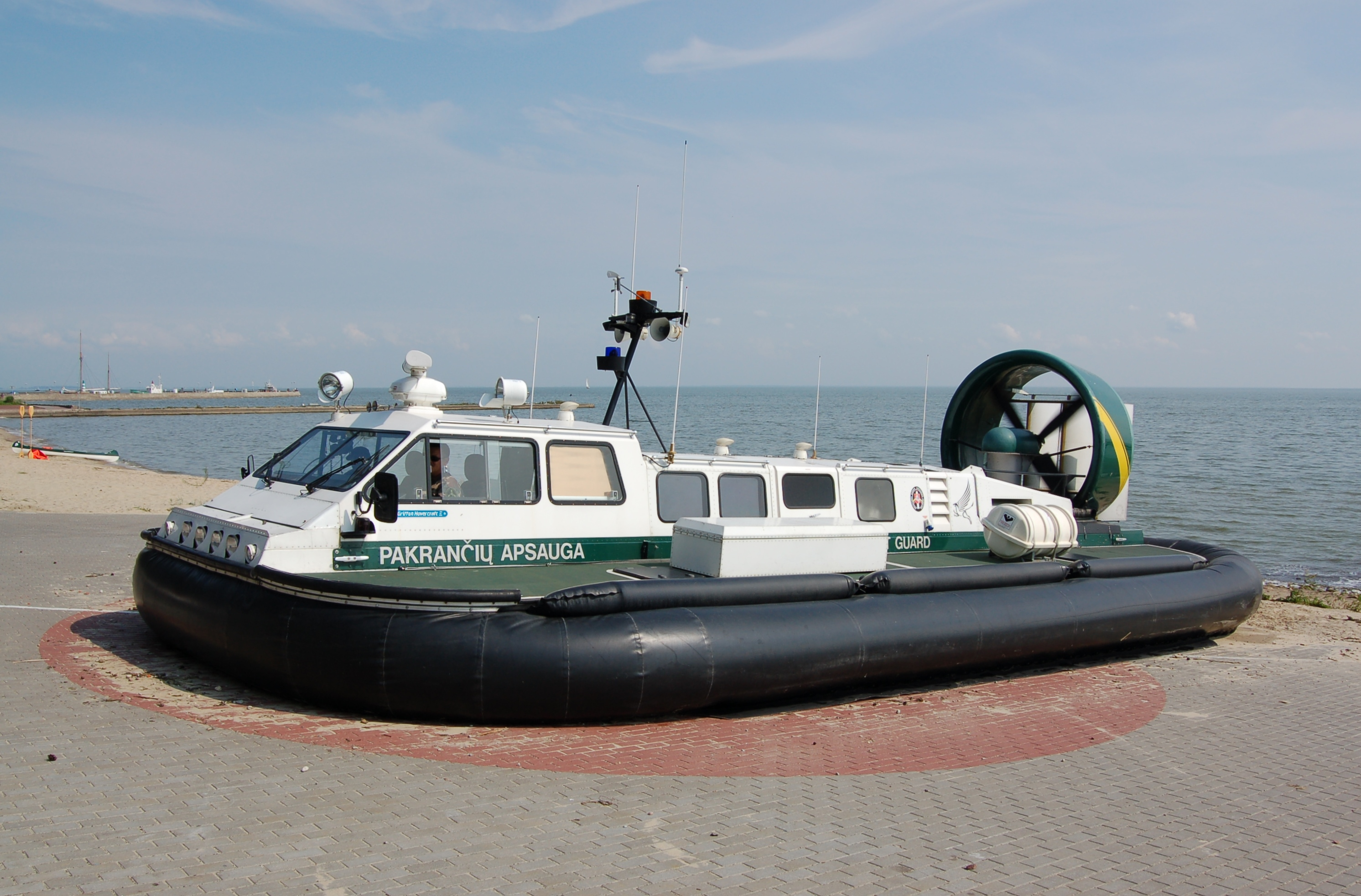 A Griffon 2000TDX Mk II hovercraft, with engine on and flexible skirt inflated. The hovercraft, Christina, was built in 2000 for the Lithuanian State Border Police (Pasienio Policija), which had been established in 1996 to serve as a form of Coast Guard (Pakrančių Apsauga). The photograph was taken at Nida, on the Curonian Spit; the body of water in the background is the Curonian Lagoon.